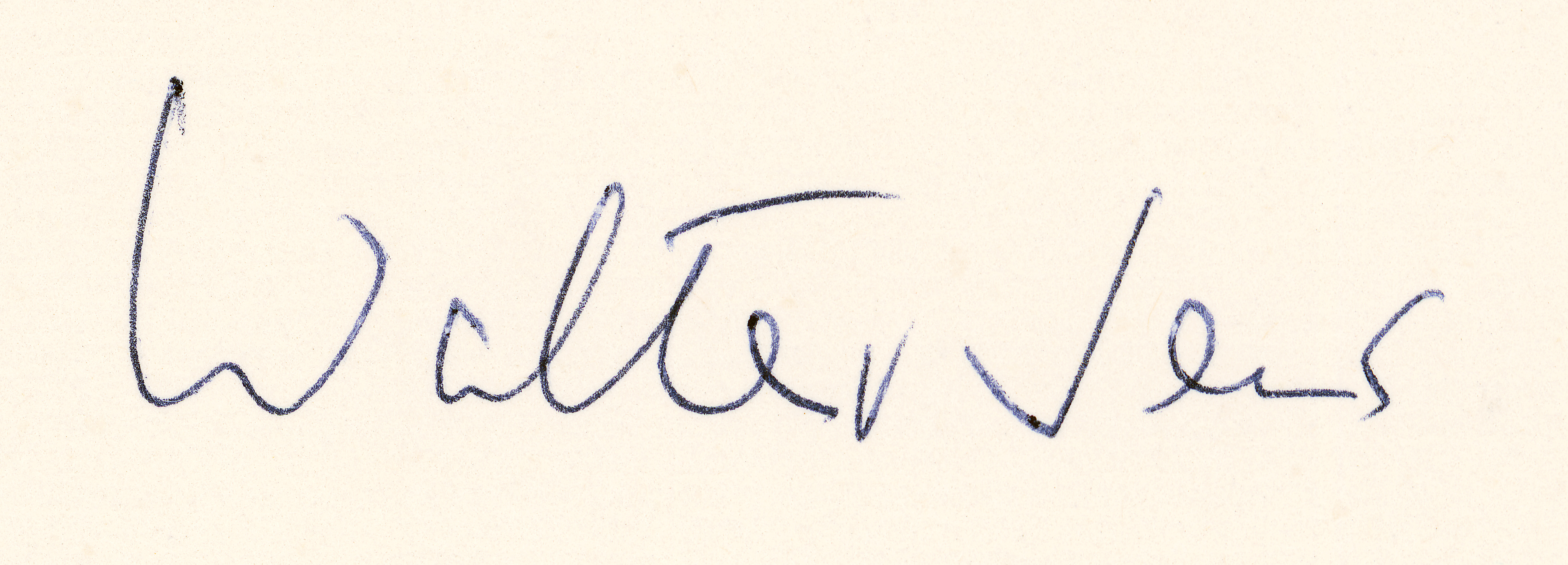 Signature of Walter Jens, from a book signed by him for sale in the famous bookstore of Wendelin Niedlich in Stuttgart. The book is: Walter Jens, Zur Antike, München: Kindler Verlag, 3rd edition, no year given, but after 1978 (the 1st edition was printed in 1978).